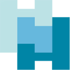 The logo of hybridica fair